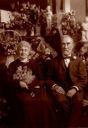 Robert Julius Rombauer (1832-1925) and his wife in 1922